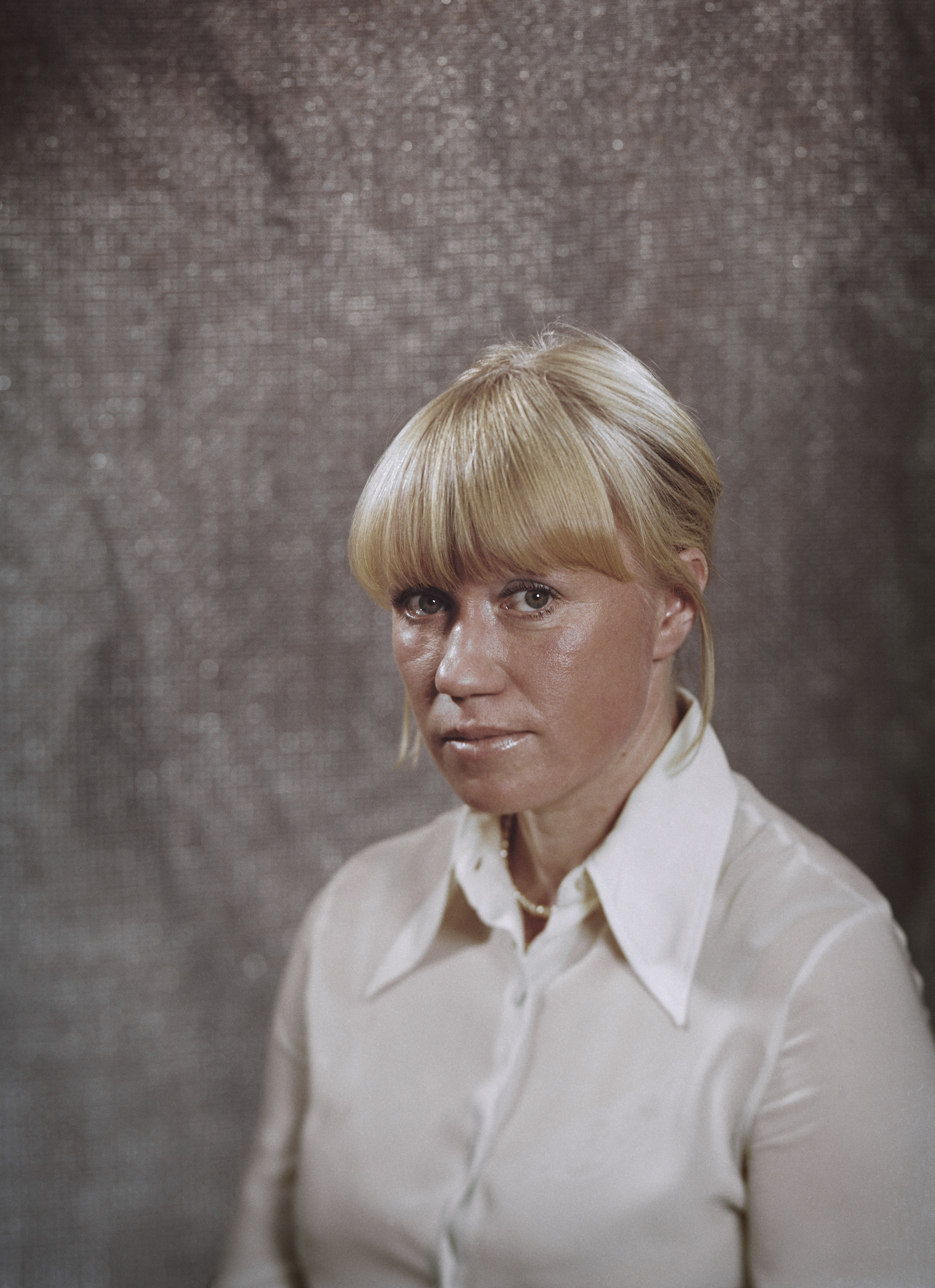 Journalist Liisa Tuutti (1941–1983), editor-in-chief of Kotiliesi 1978–1983.